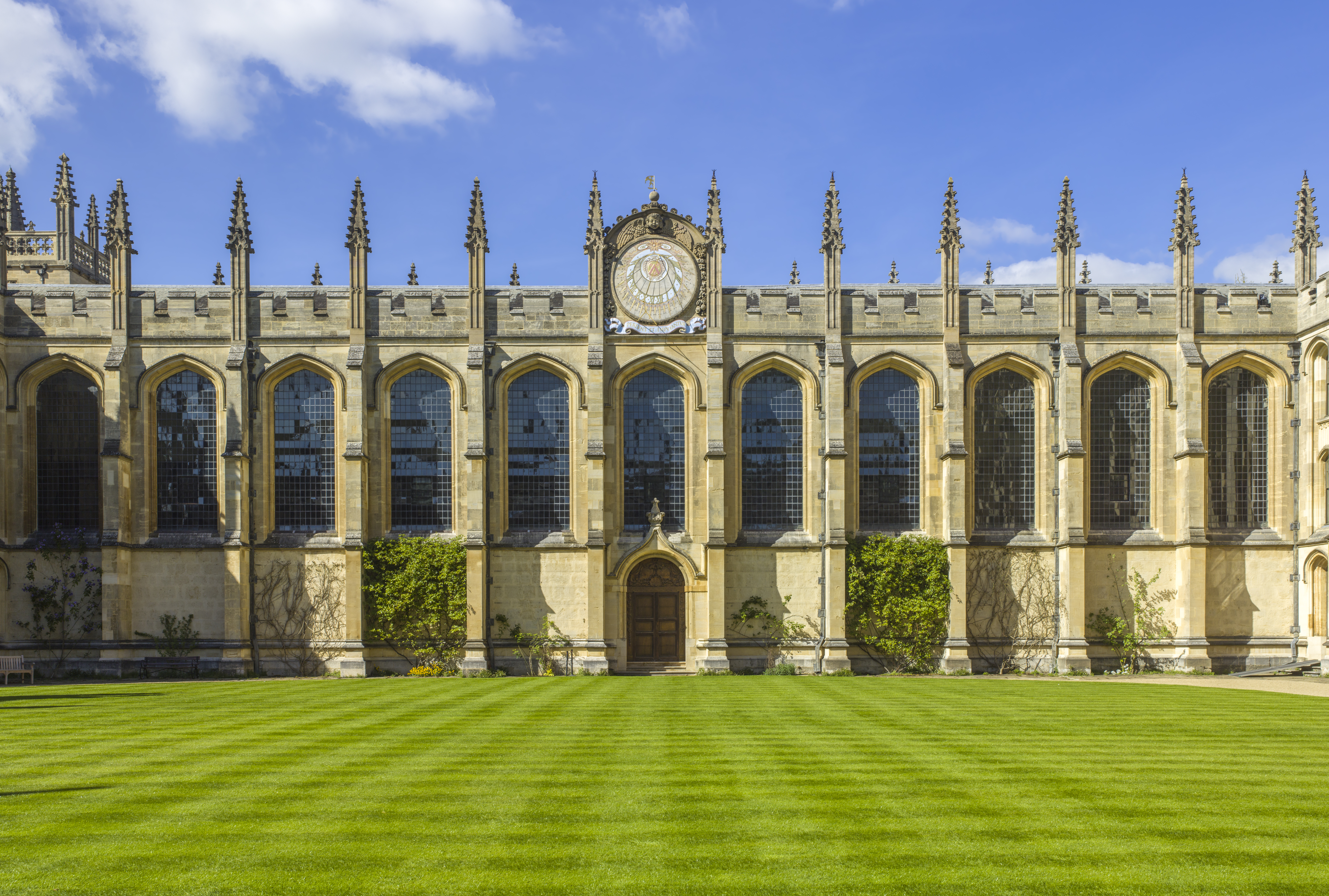 All Souls College (Oxford University) founded in 1438, is a graduate student-only college. In 2012 there were a total of eight graduates. Codrington Library.